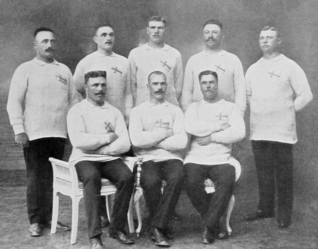 The Swedish tug of war team at the 1912 Summer Olympics